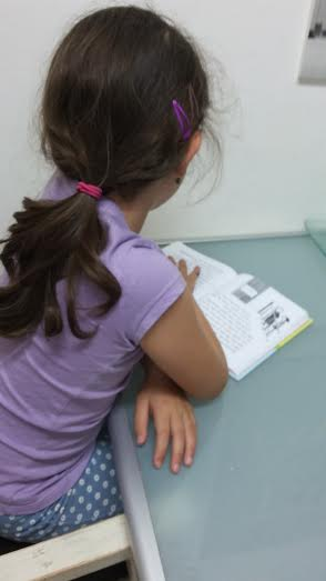 the language of schooling is the basic of learning how to read and write